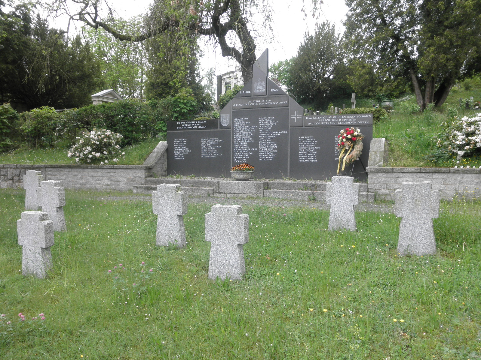 Monument for War Victims in Schleiz in Saale-Orla-Kreis